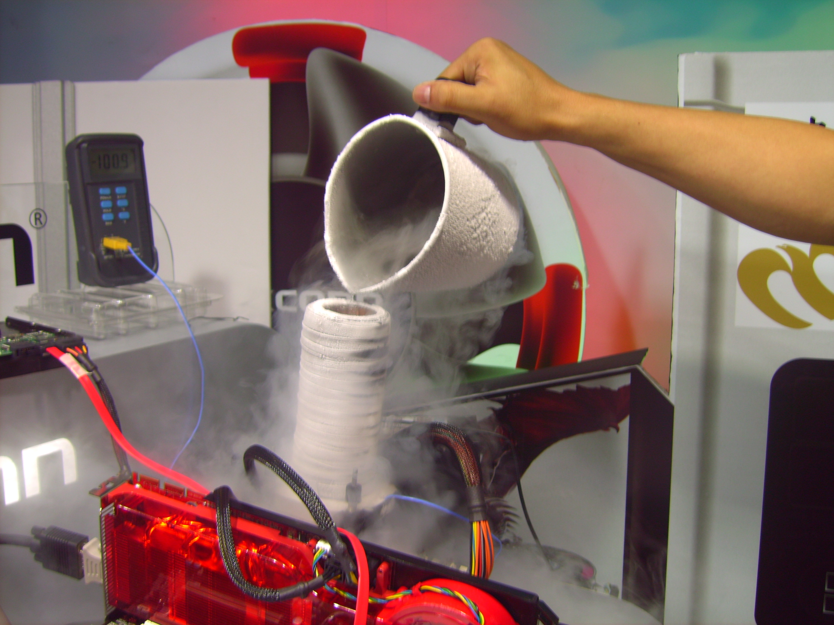 2007 COMPUTEX Taipei: A hardware engineer flowed liquid Nitrogen to evaluate overclocking of processor.